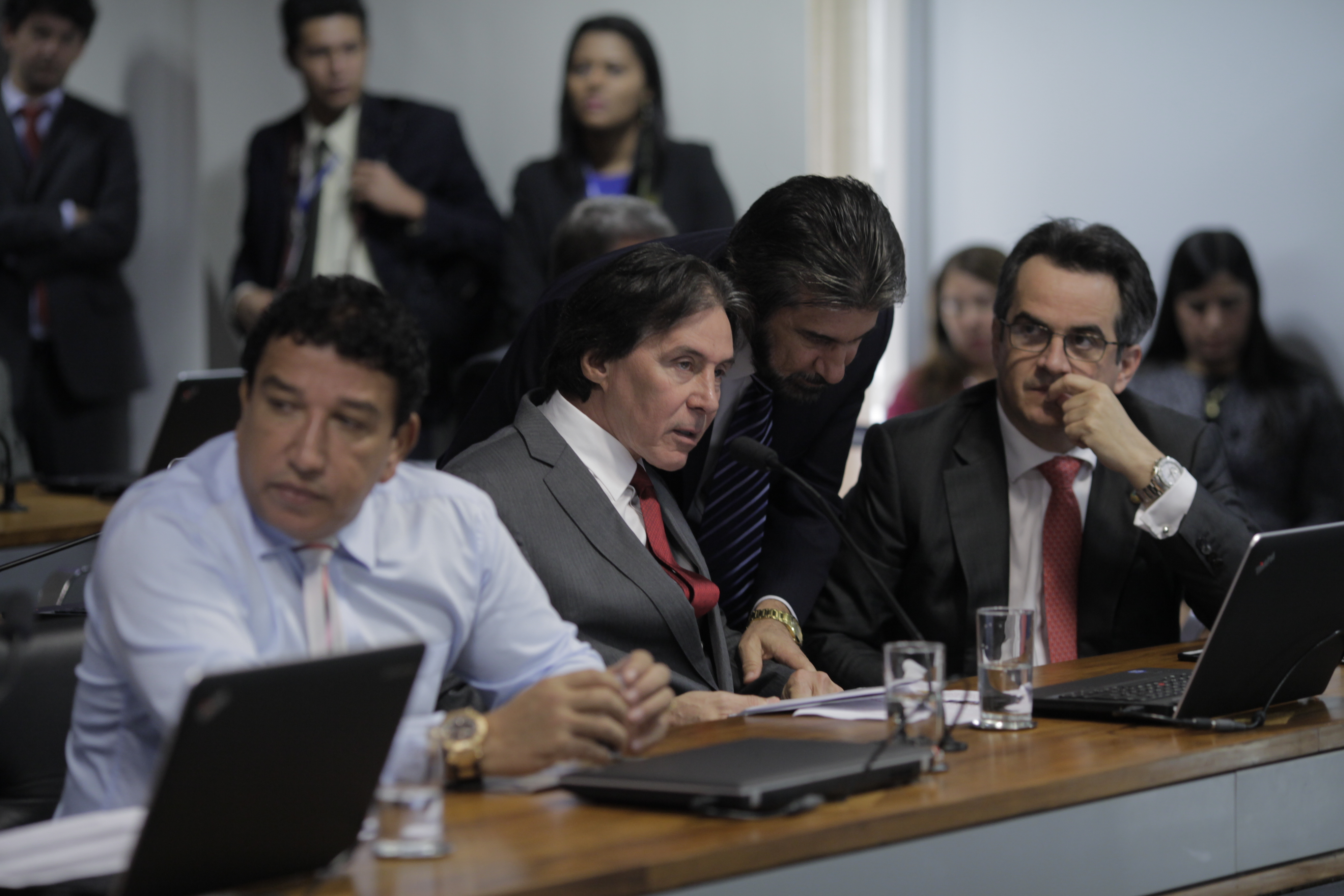 Eunício Oliveira, Valdir Raupp and Magno Malta